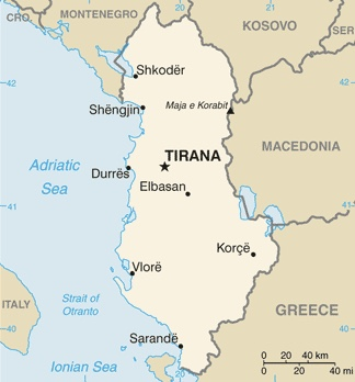 Map of Albania